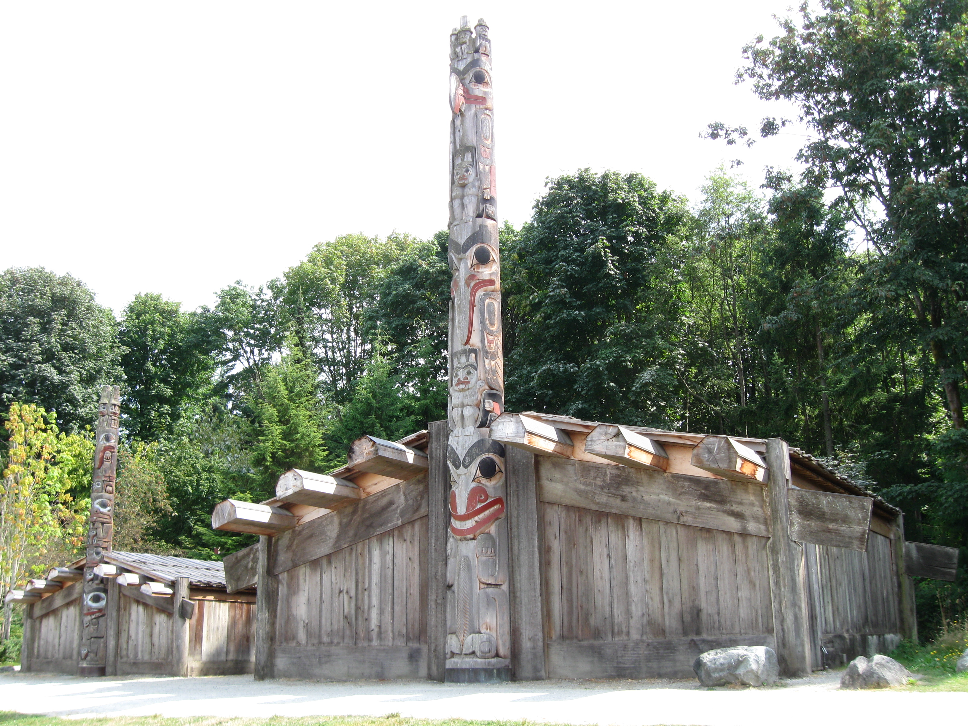 This is the UBC Museum of Anthropology Haida House replica exhibit in Vancouver, Canada. It has been located behind the UBC Anthropology Museum for 2 years now and is likely a permanent exhibit. There are built in display panels describing the identity of these structures and their meaning in traditional Haida culture and rituals.